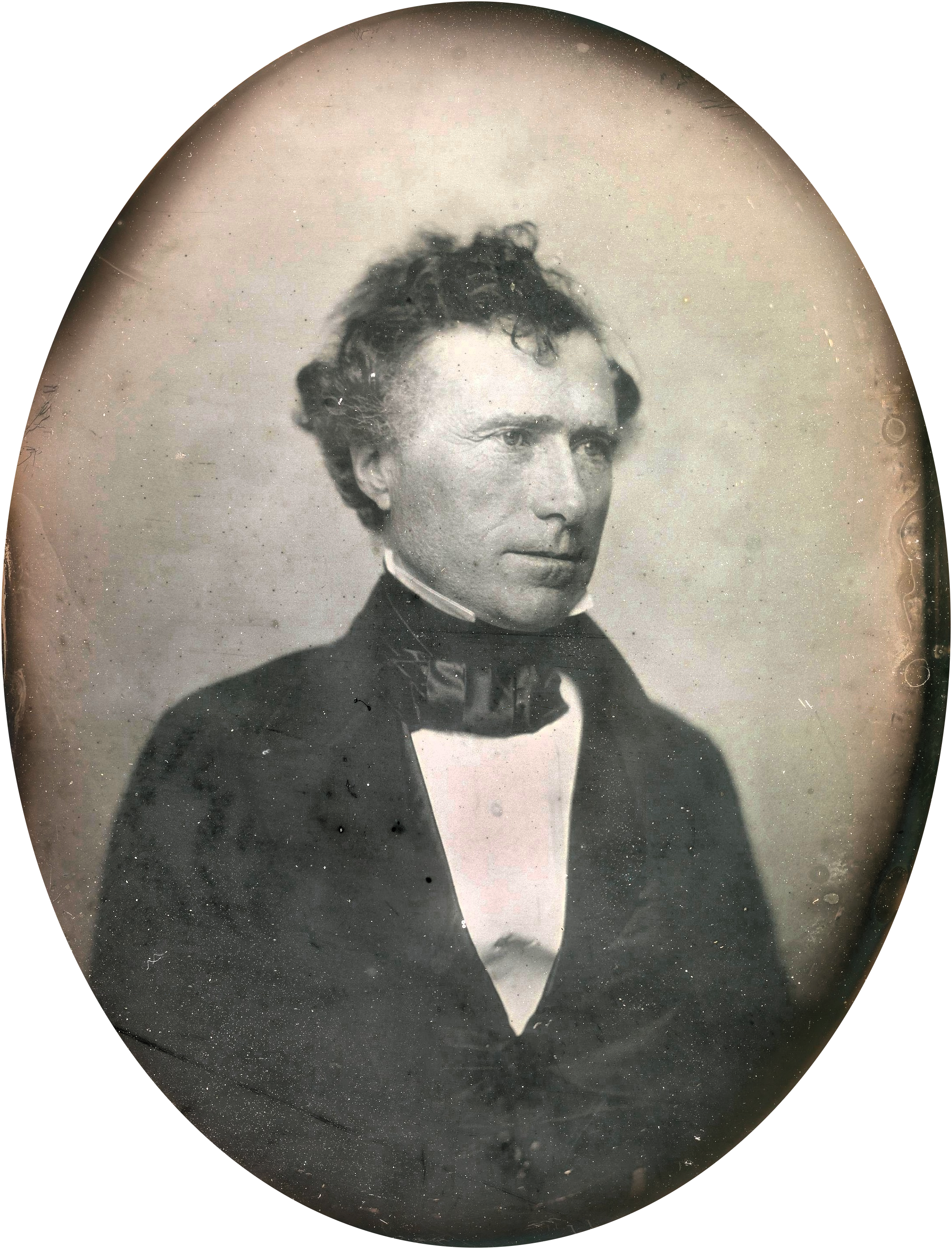 Daguerreotype of Franklin Pierce